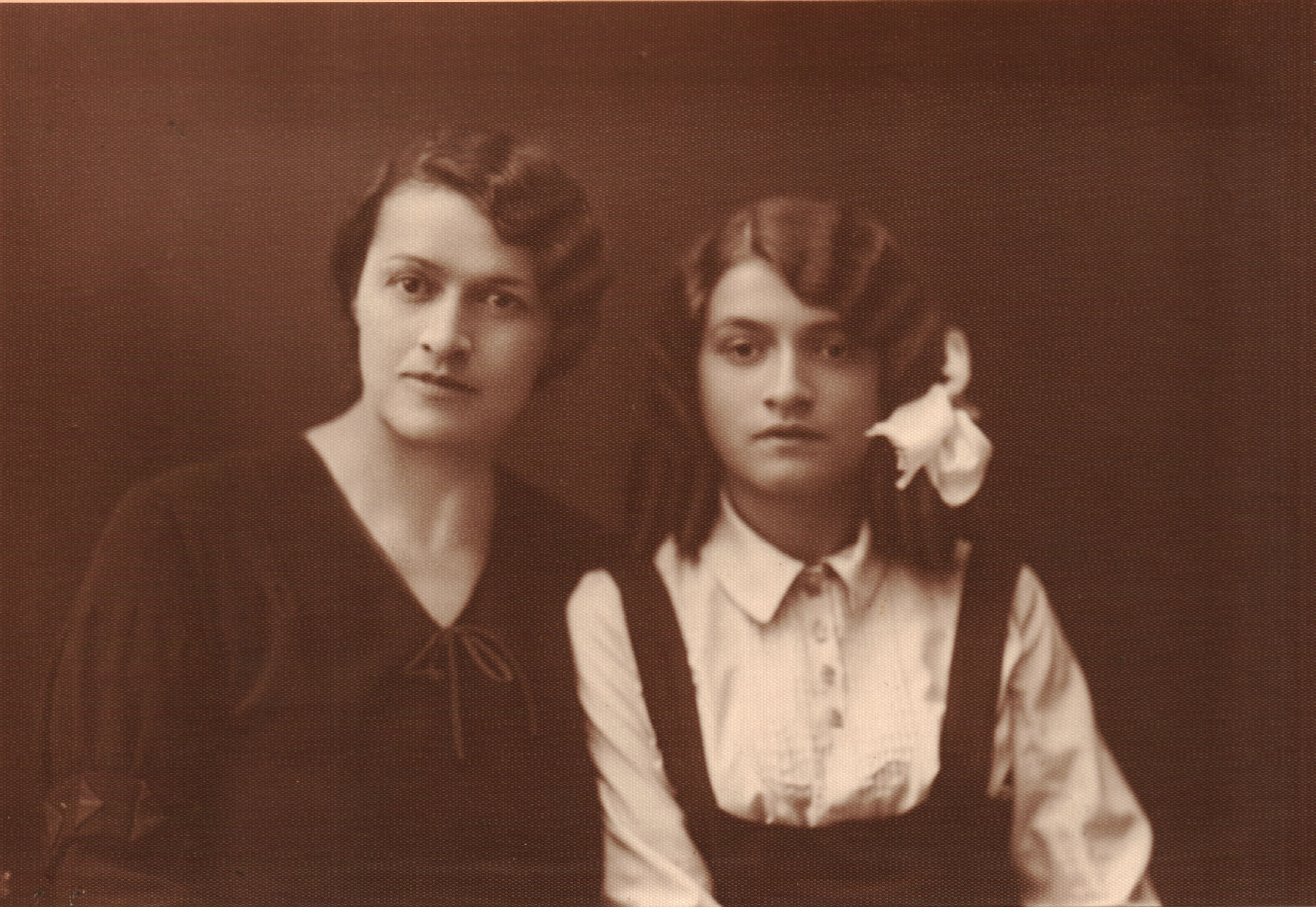 Bulgarian geographer Aleksandra Monedzhikova with her daughter Milena.